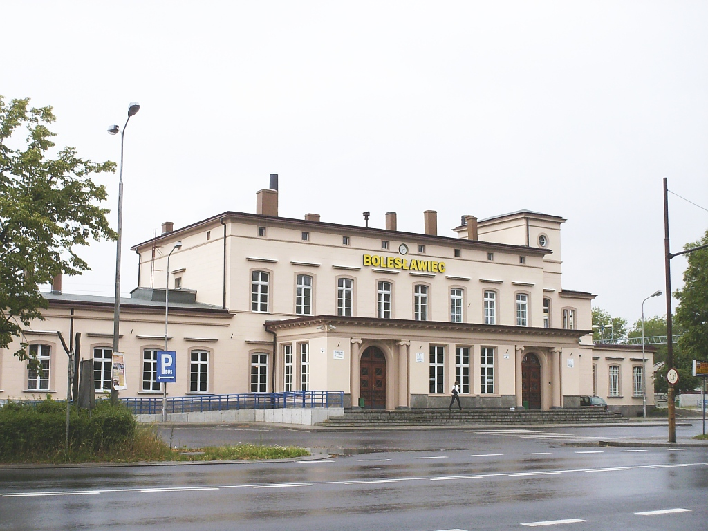 Railway station in Boleslawiec, Poland